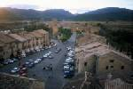 Picture from Ainsa, taken by me.